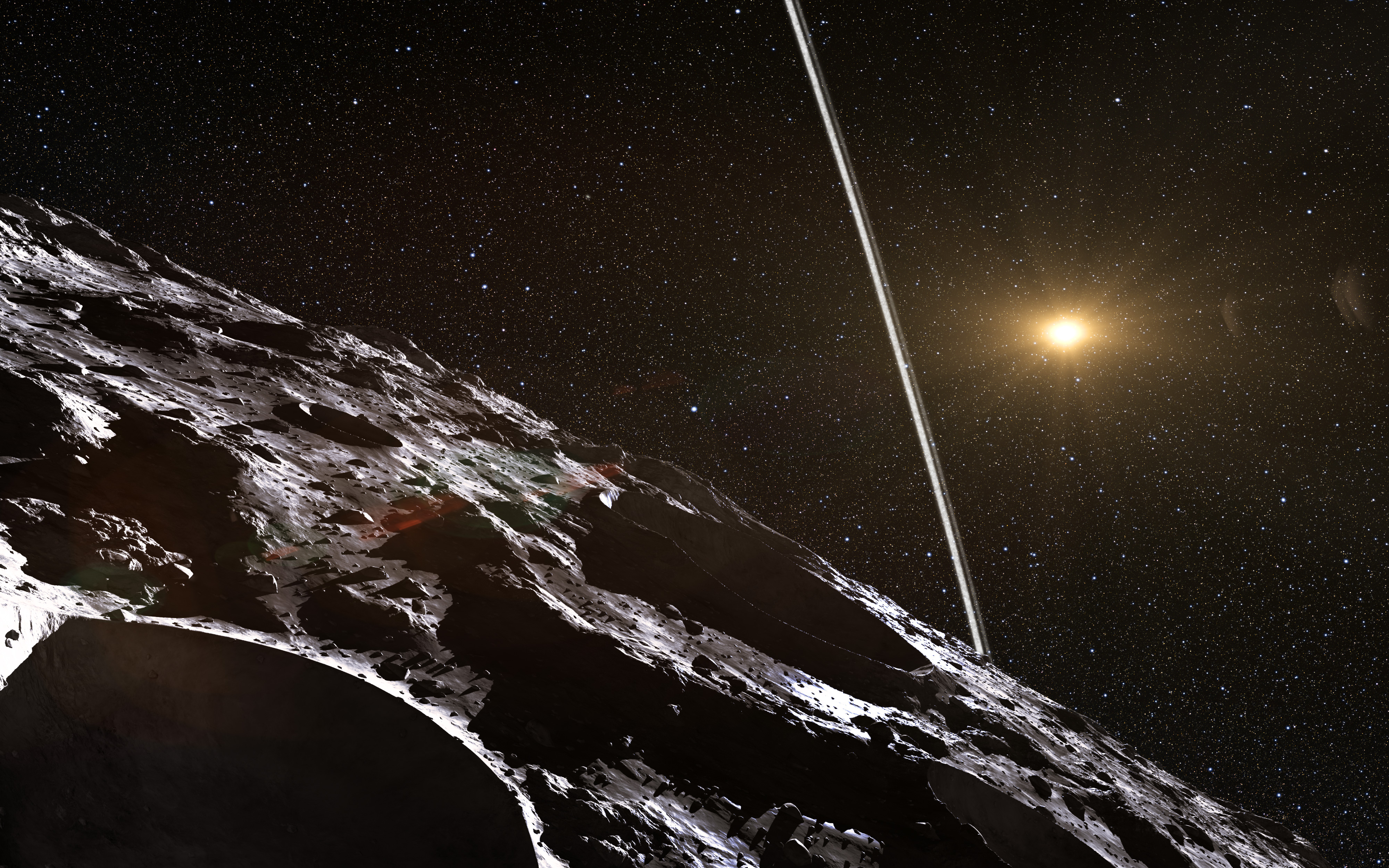 Observations at many sites in South America, including ESO’s La Silla Observatory, have made the surprise discovery that the remote asteroid Chariklo is surrounded by two dense and narrow rings. This is the smallest object by far found to have rings and only the fifth body in the Solar System — after the much larger planets Jupiter, Saturn, Uranus and Neptune — to have this feature. The origin of these rings remains a mystery, but they may be the result of a collision that created a disc of debris. This artist’s impression shows how the rings might look from close to the surface of Chariklo.